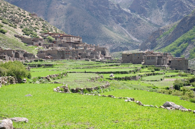 zang village of limi Valley